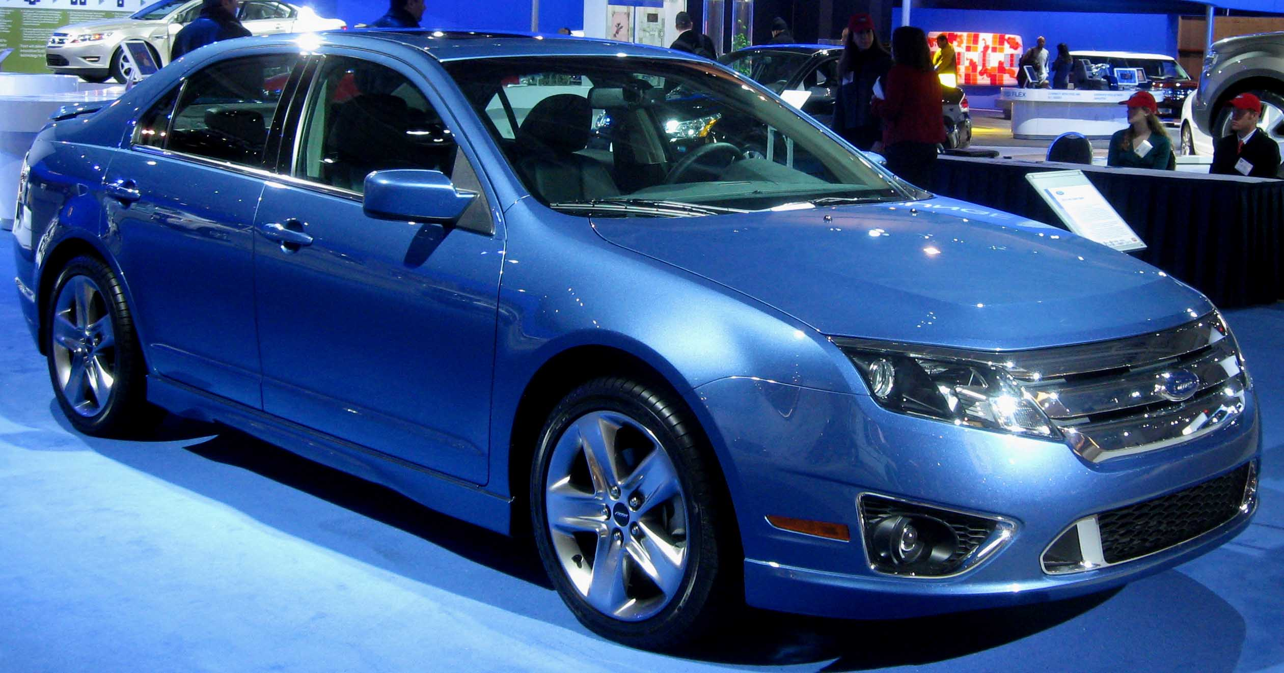 2010 Ford Fusion photographed at the 2009 Washington DC Auto Show.